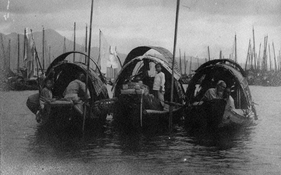 Fuzhou Tanka people on their boats in Min River, Fuzhou, Fujian, China, 1910 Mìng-dĕ̤ng-ngṳ̄: 1910 nièng Hók-ciŭ Mìng-gĕ̤ng siông gì Dáng-mìng (Kuóh-dà̤).